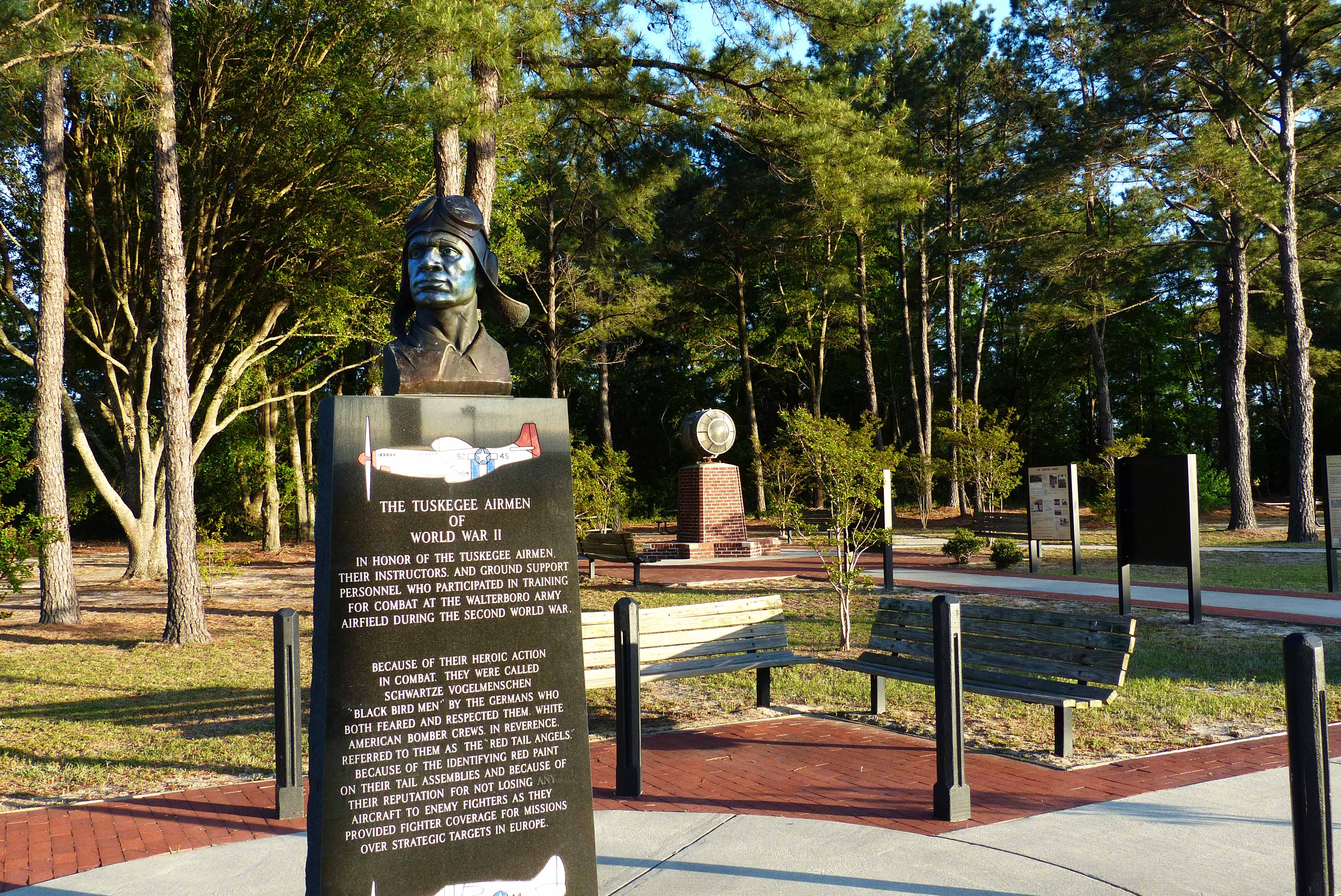 The memorial to the Tuskegee Airmen at Lowcountry Regional Airport in Walterboro, South Carolina, USA. This airport was formerly known as Walterboro Army Airfield.